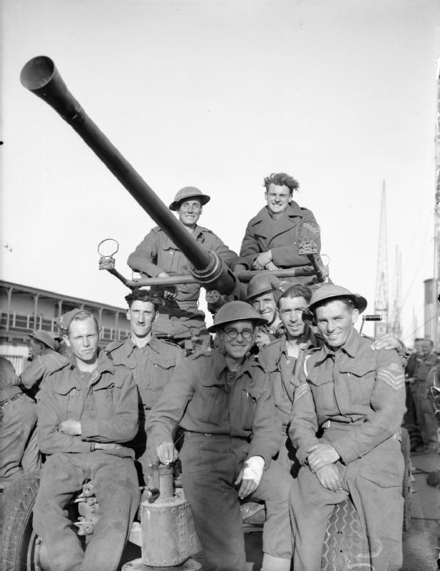 The British Army in the United Kingdom 1939-45 A 40mm Bofors gun crew on the quayside at Southampton having returned from France during the evacuation of British forces from Cherbourg, 19 June 1940.